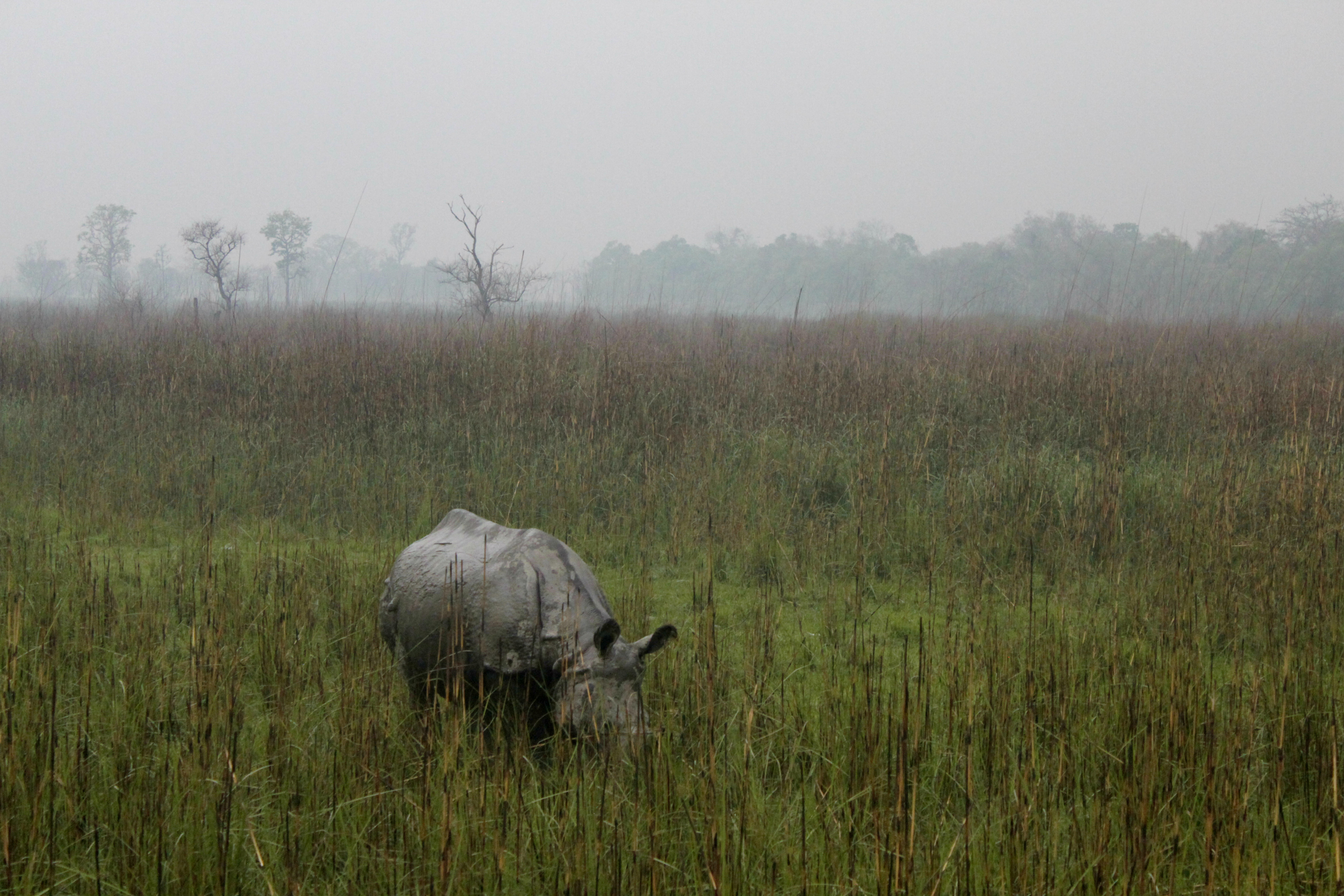 Alone in the grasslands, the Rhino was found grazing on the elephant grass.